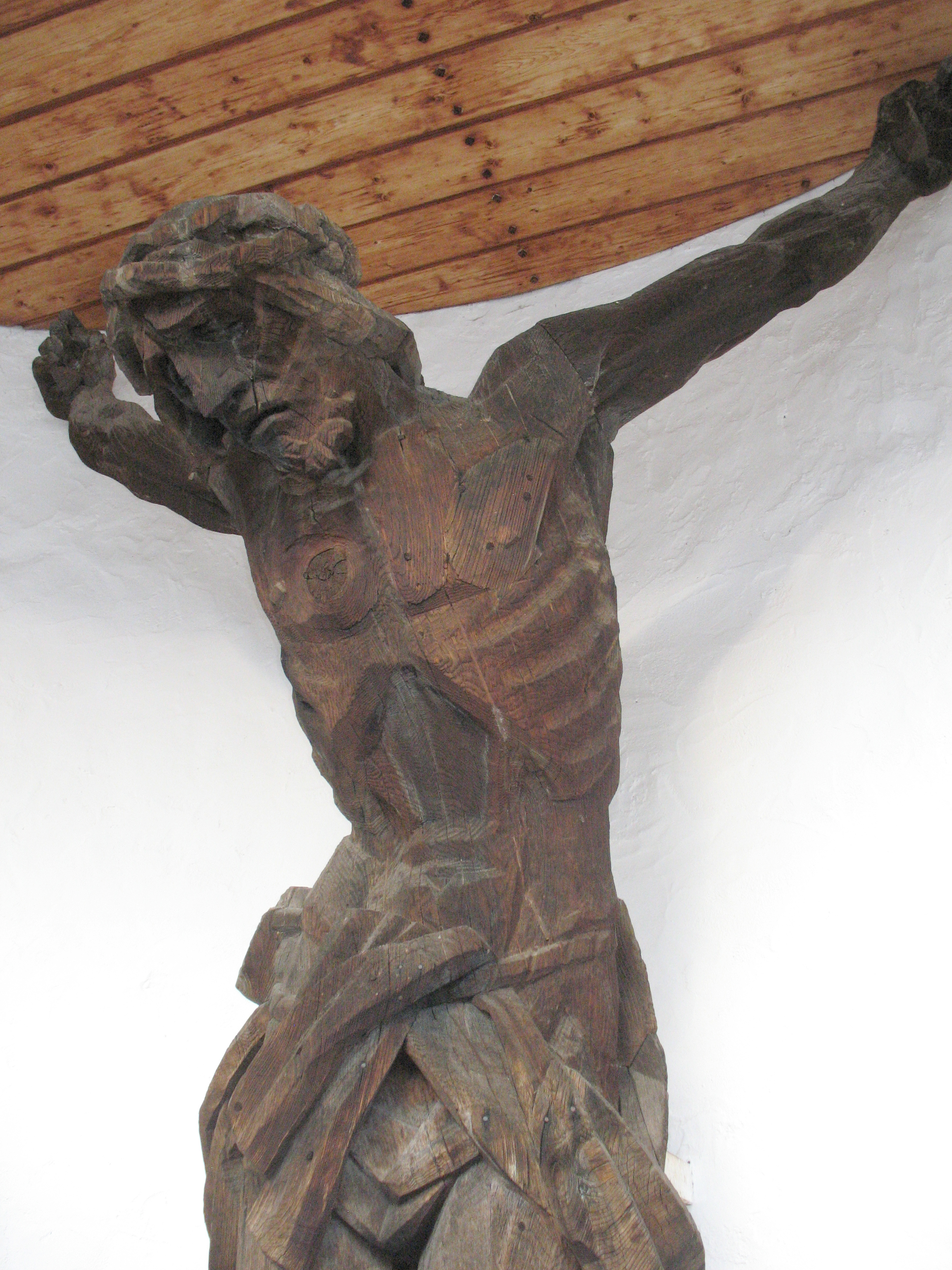 Crucifix by Luis Insam, sculptor in Val Gardena 1932. The original is located in the Museum Gröden